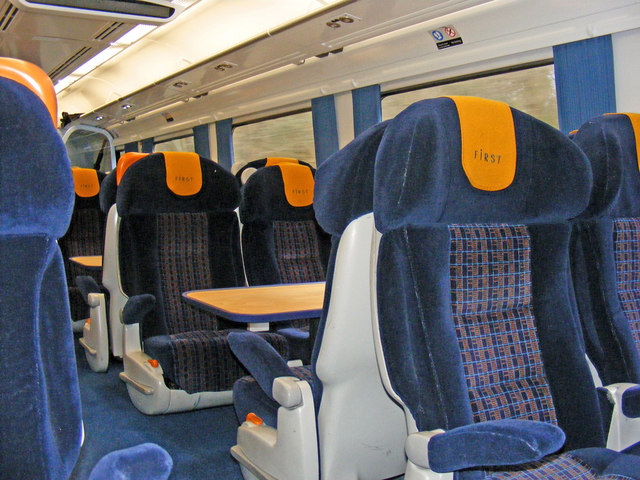 First Class Seating. All the Class 159 Turbo trains currently in use by South West Trains on the London to Exeter Line are being refurbished, with new interiors and seating.